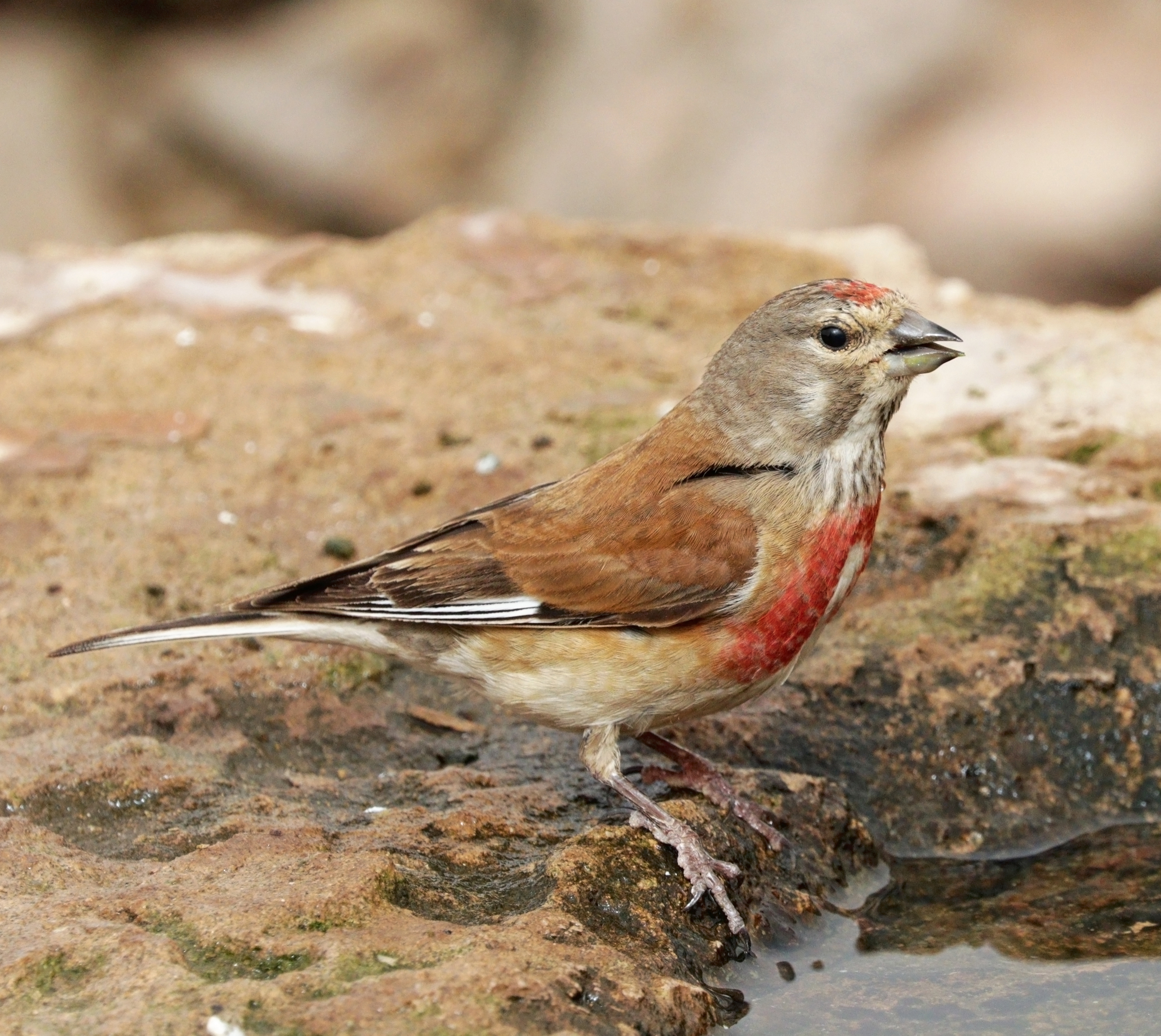 Common linnet (Linaria cannabina mediterranea) male, Souss-Massa National Park, Morocco